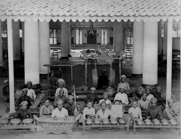 Gamelan orchestra